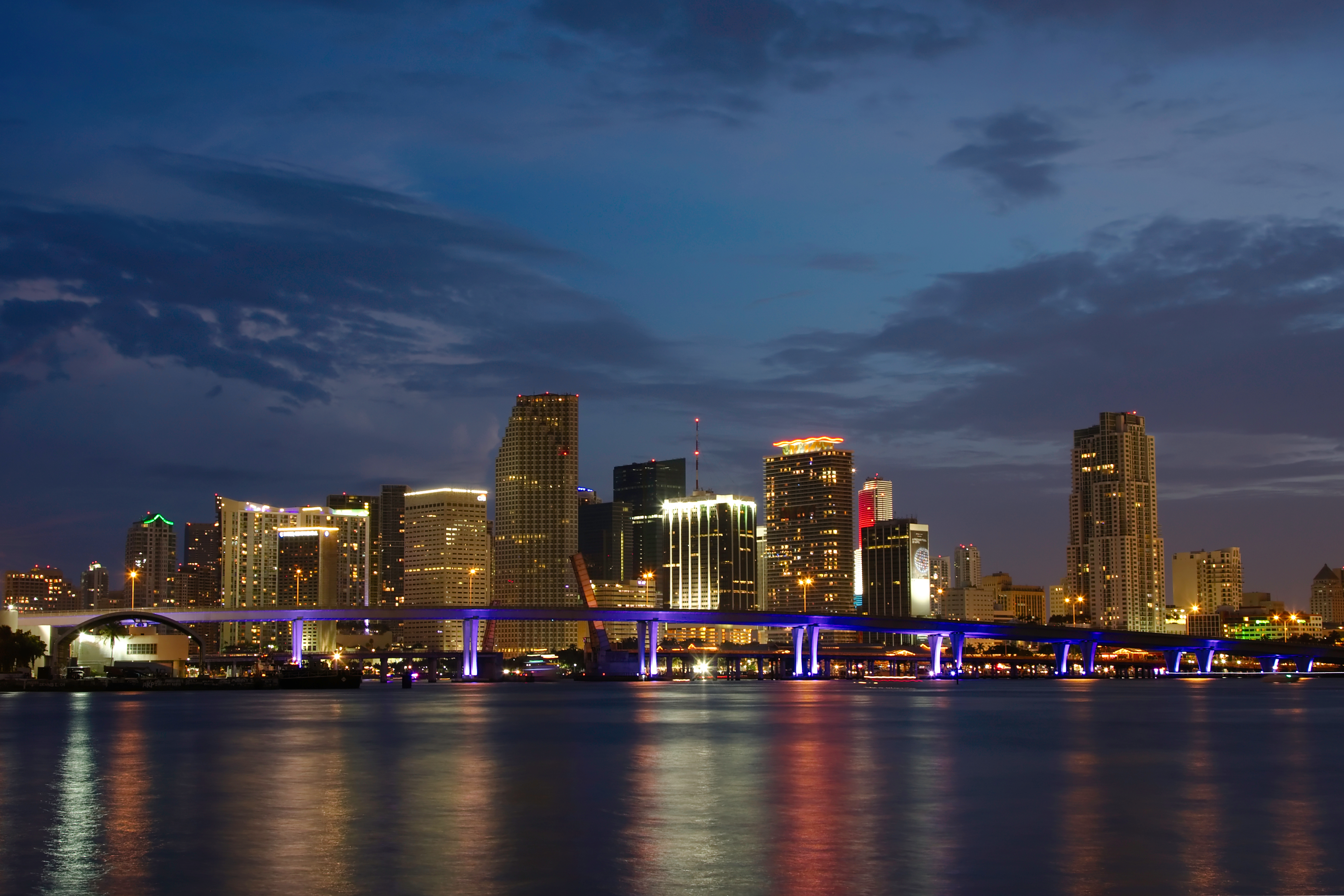 Downtown Miami, Florida, on the 4th of July, 2010, as seen from Watson Island